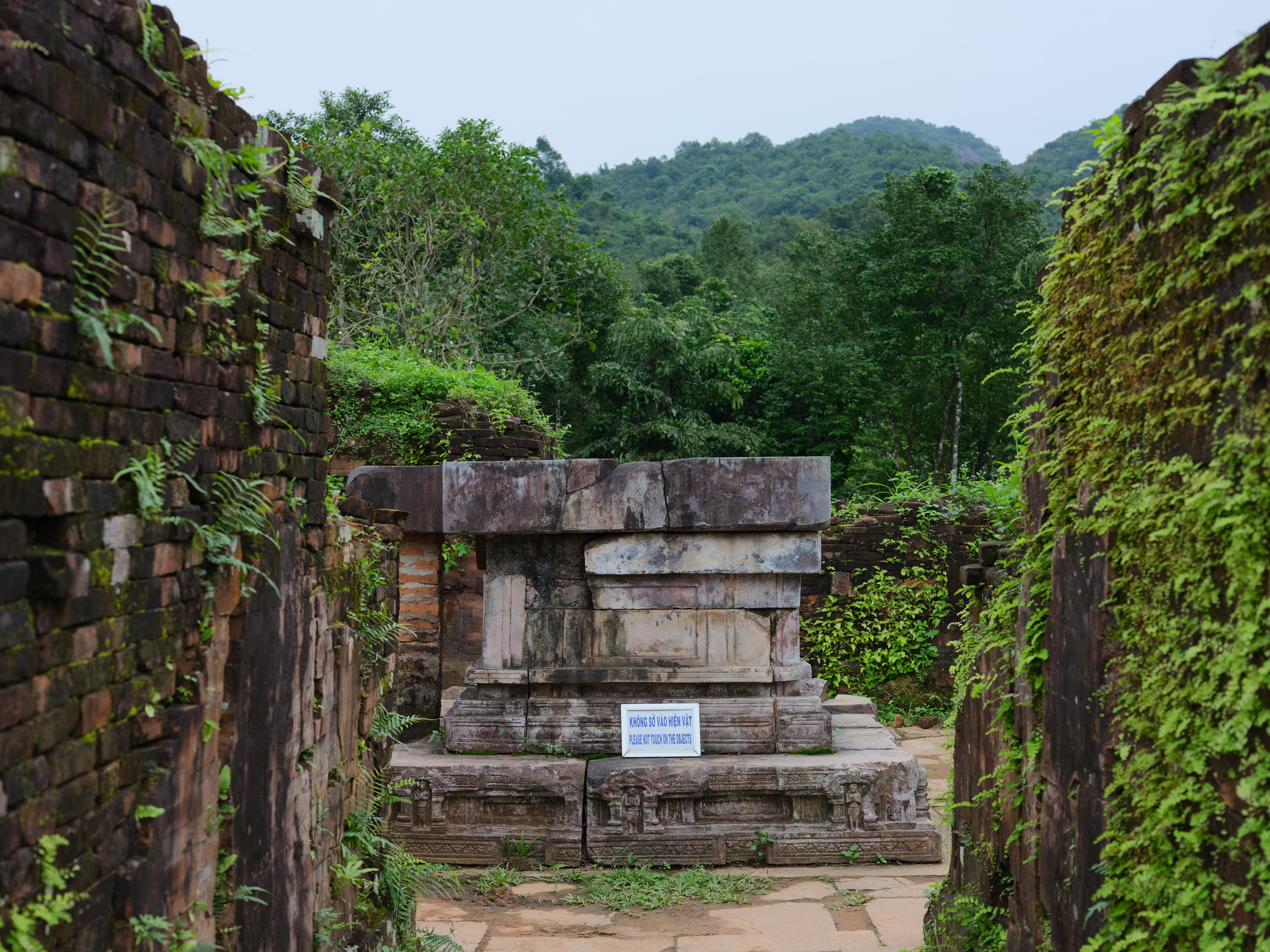 Yoni in the ruins of A1 temple, My Son sanctuary, Vietnam.